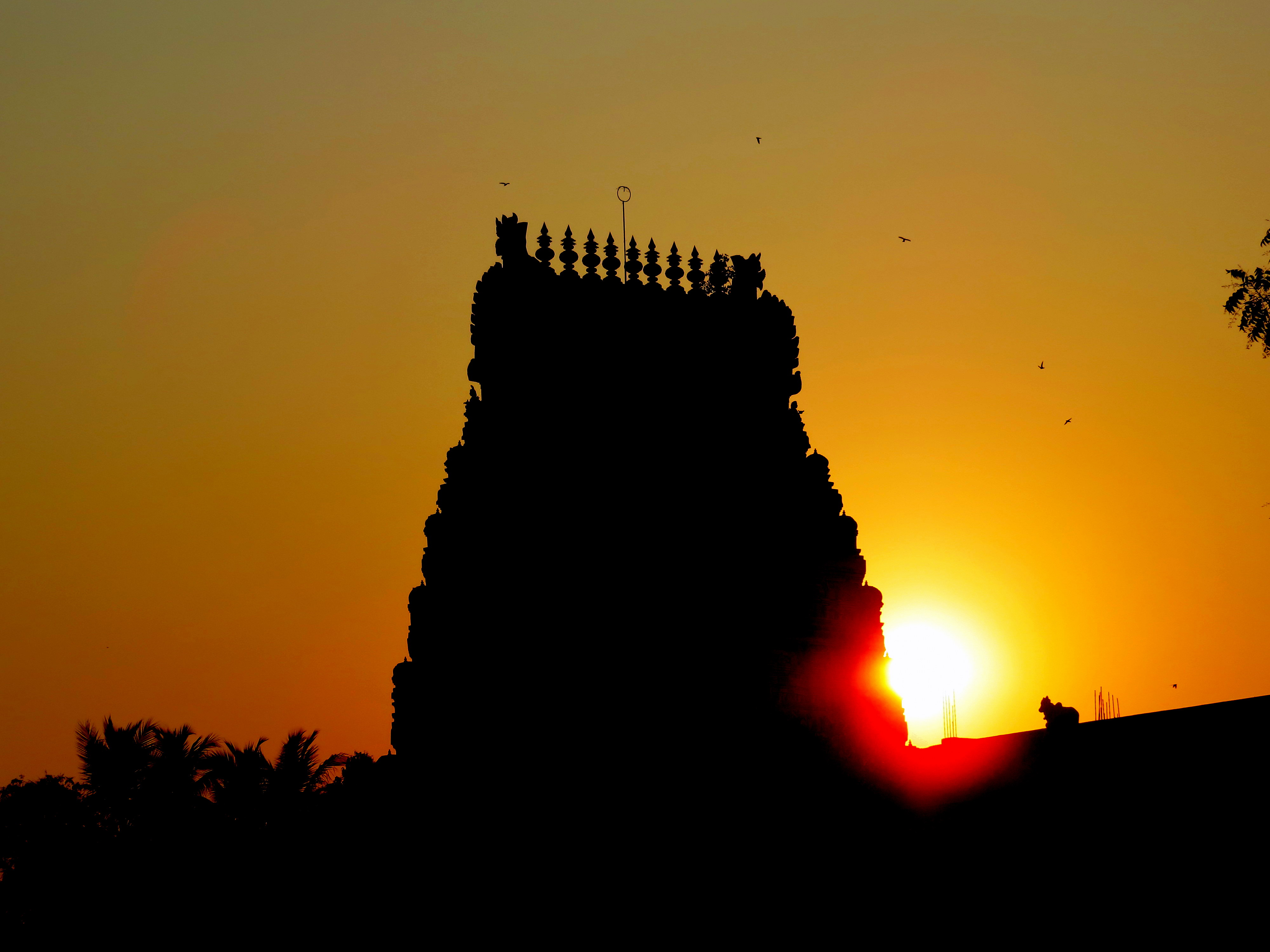 Sri Naganatha Swamy temple, Thirunageswaram, Thanjavur district, Tamil Nadu, India